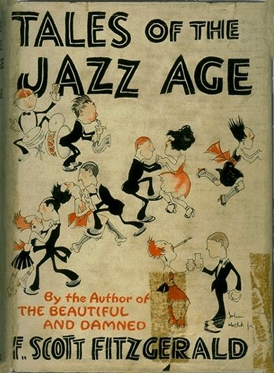 Cover of a 1922 edition of F. Scott Fitzgerald's book Tales of the Jazz Age, painted by John Held, Jr.